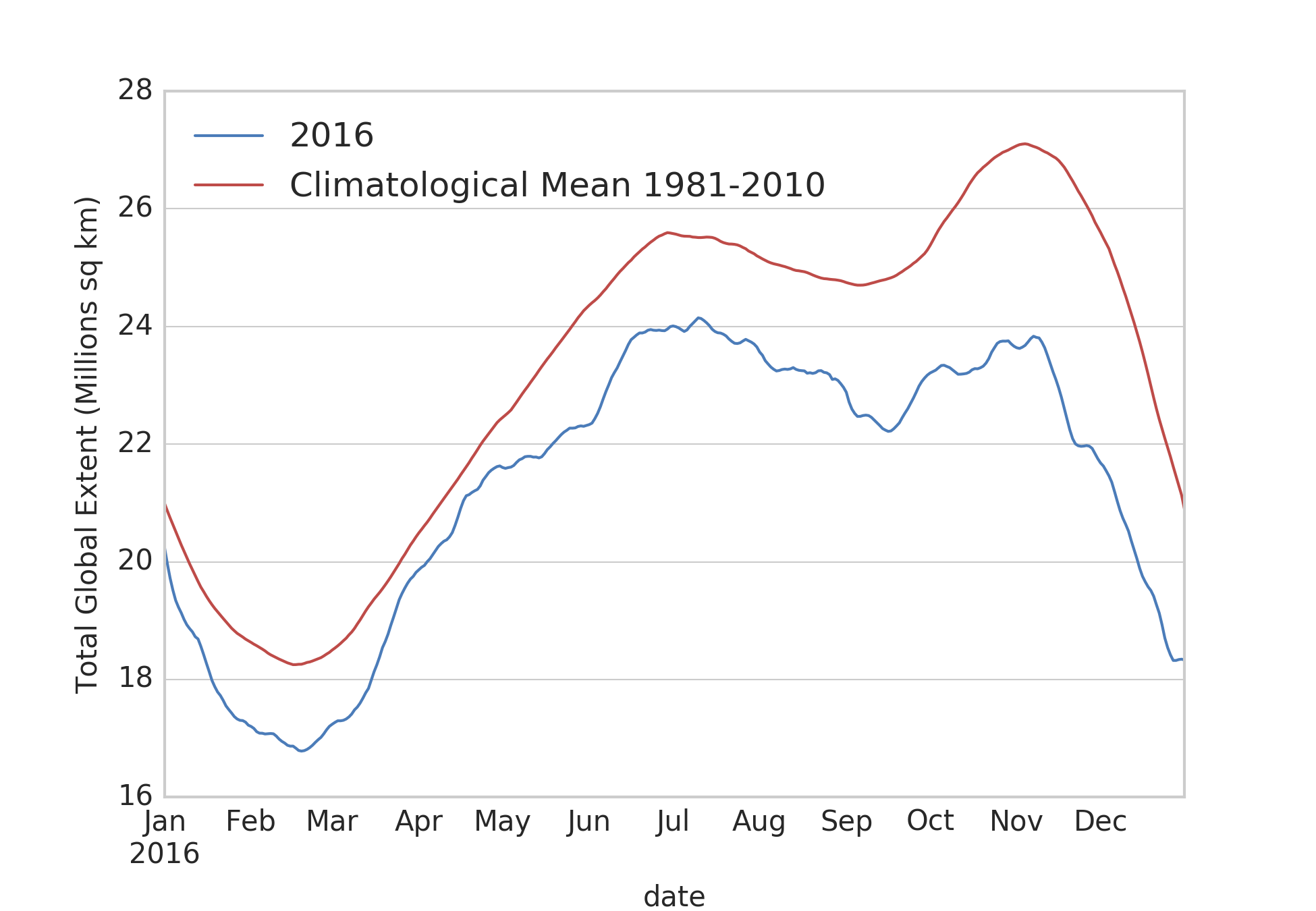 This time series of daily global sea ice extent (Arctic plus Antarctic) shows global extent tracking below the 1981 to 2010 average.